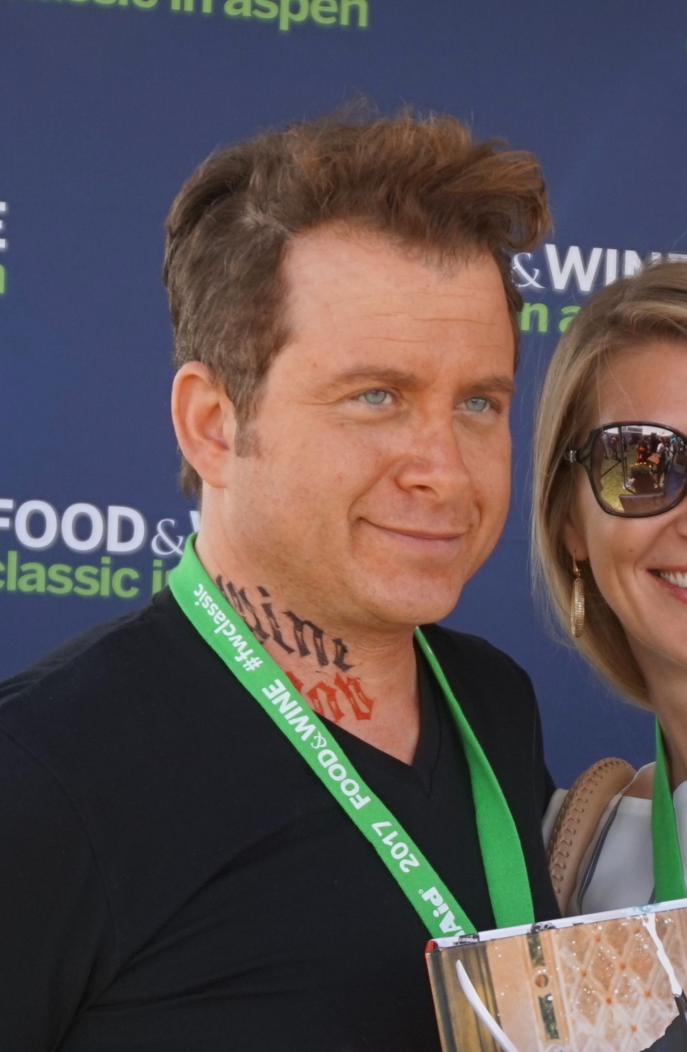 Mark Oldman